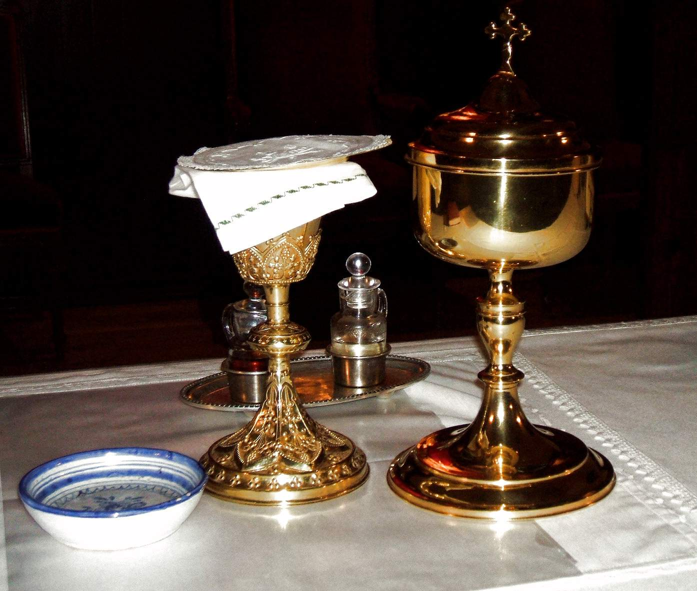 Cáliz, copón y vinajeras sobre el altar mayor de la iglesia de los PP Capuchinos de Alsasua, Navarra, España